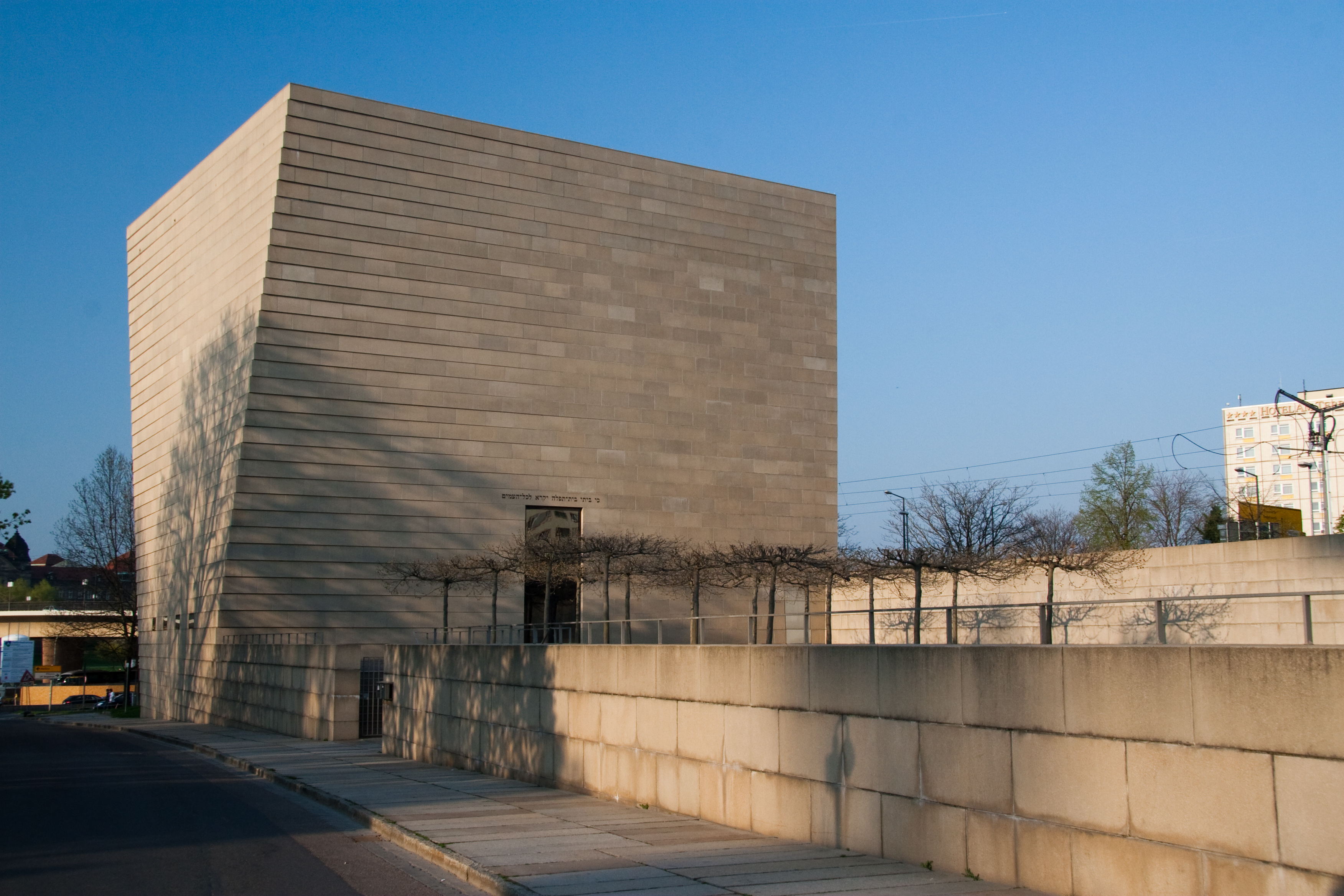 The Synagogue in Dresden 51°3′9.5″N 13°44′48.8″E / 51.052639°N 13.746889°E